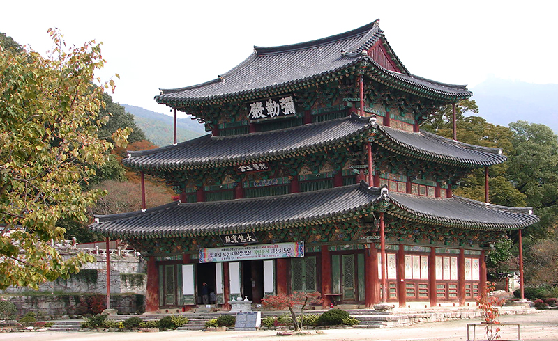 Mireukjeon (Mireukjeon Hall of Geumsansa Temple), housing a large Mireuksa Buddha (Buddha of the Future), is a three story wooden building, unique among Korean Buddhist halls, (re-)constructed in 1635. Each floor has its own name; the first floor is called Daejabojeon (Hall of Great Mercy and Treasure), the second floor Yonghwajihoe (Gathering of Dragon and Beauty) and the third floor Mireukjeon (Hall of Maitreya). National Treasure #62